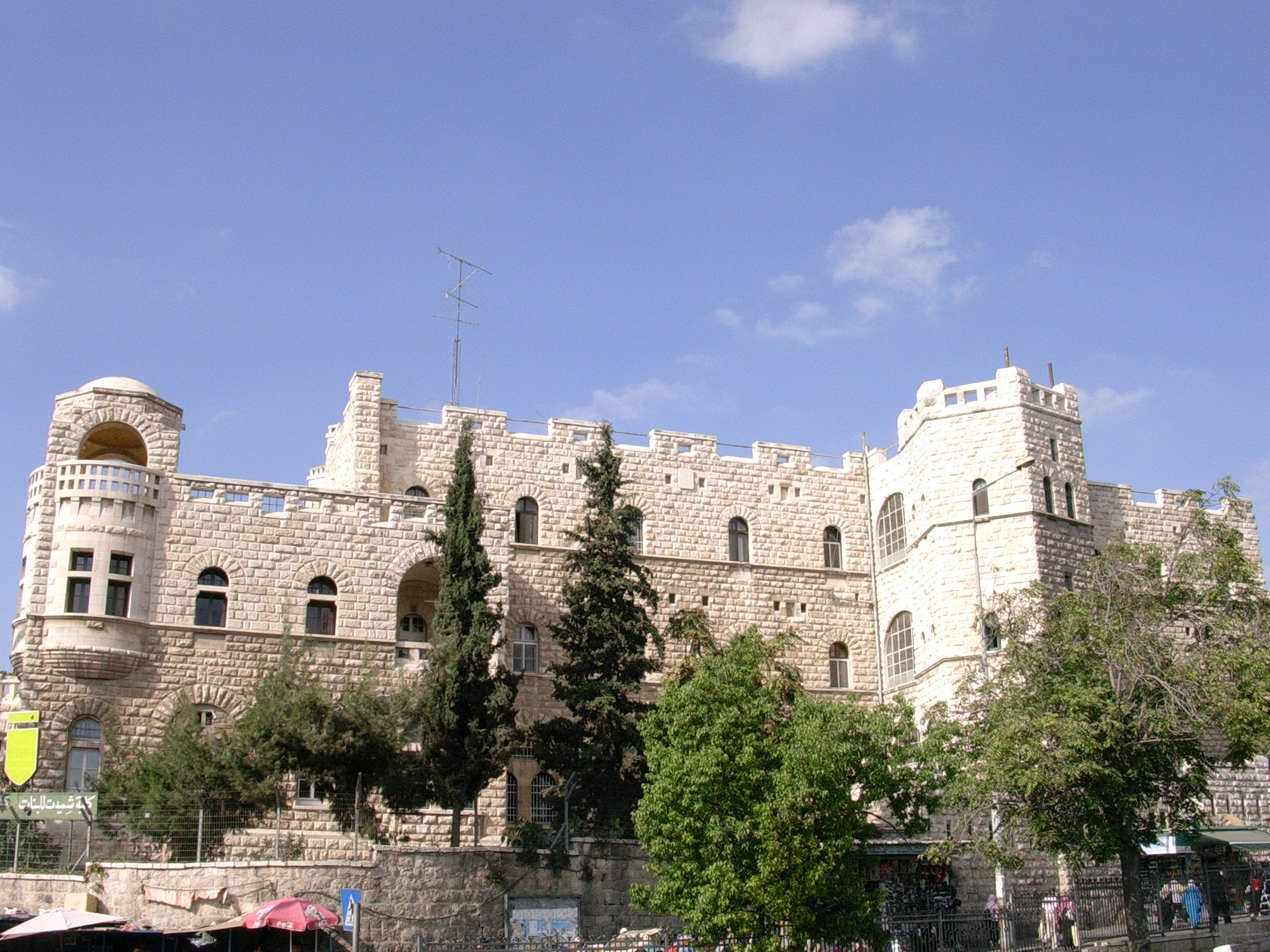 Paulus House Front Facade